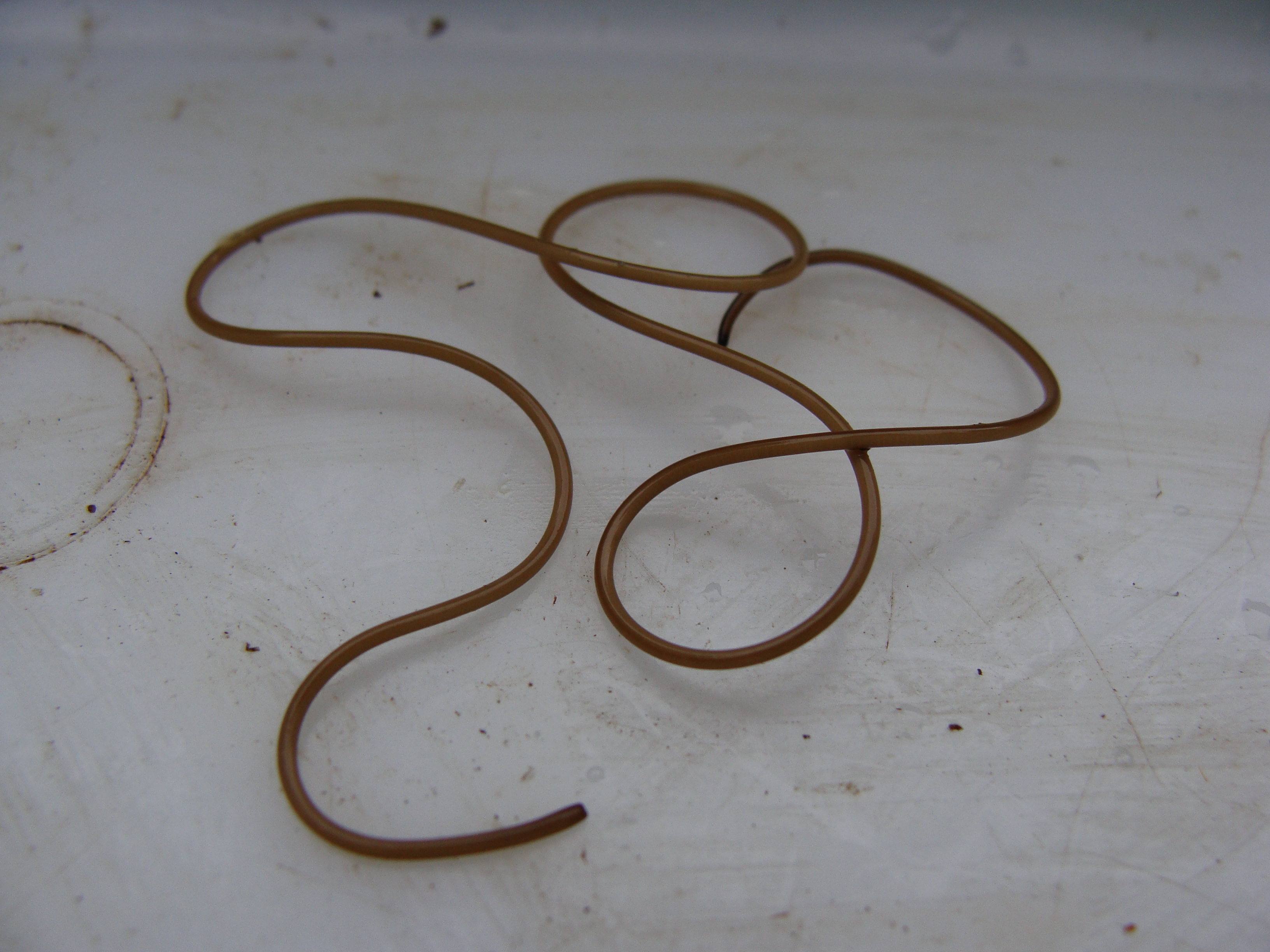 Unknown genus (I can't assign it) of Nematomorpha found in Parque Natural de Somiedo, Asturias, Spain, in the acumulated water of an abandoned wheel pneumatic in the forest.